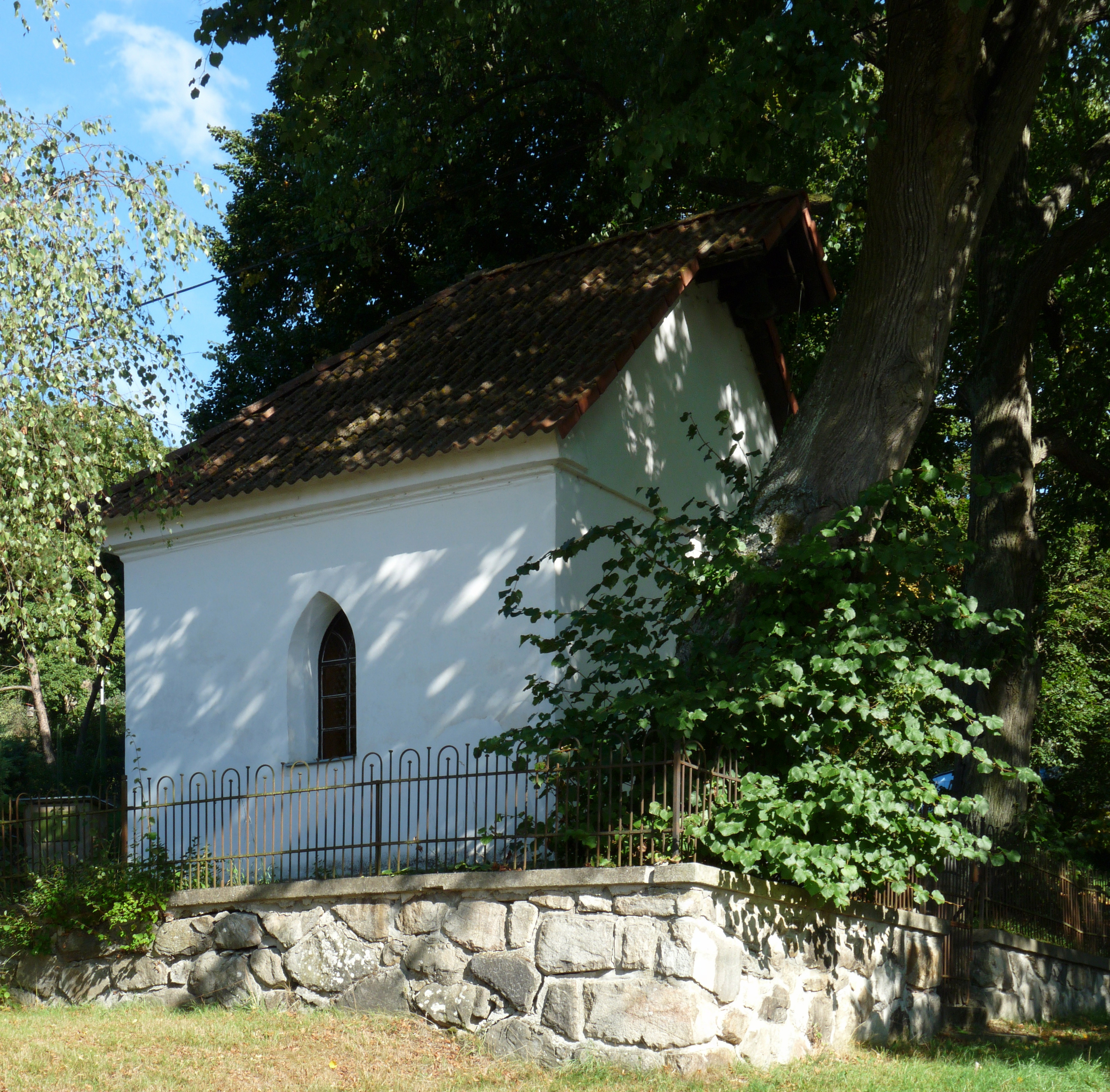 Chapel in the village of Věžničky,Benešov District, Central Bohemian Region, Czech Republic.